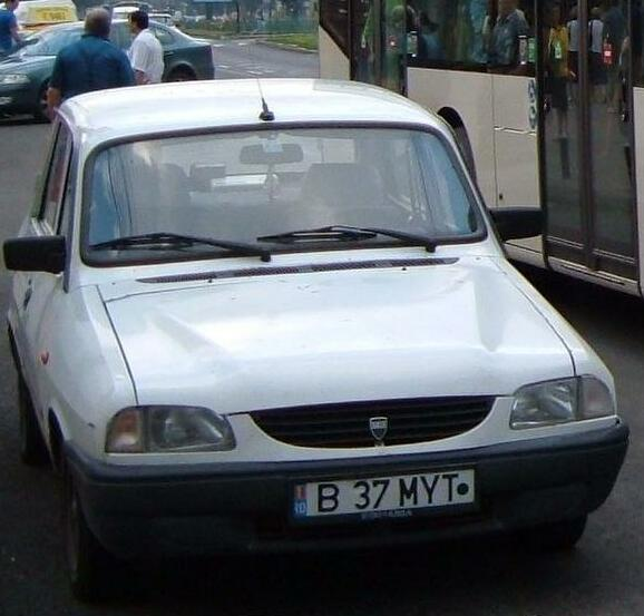 Dacia 1410 Location: Bucharest, Romania